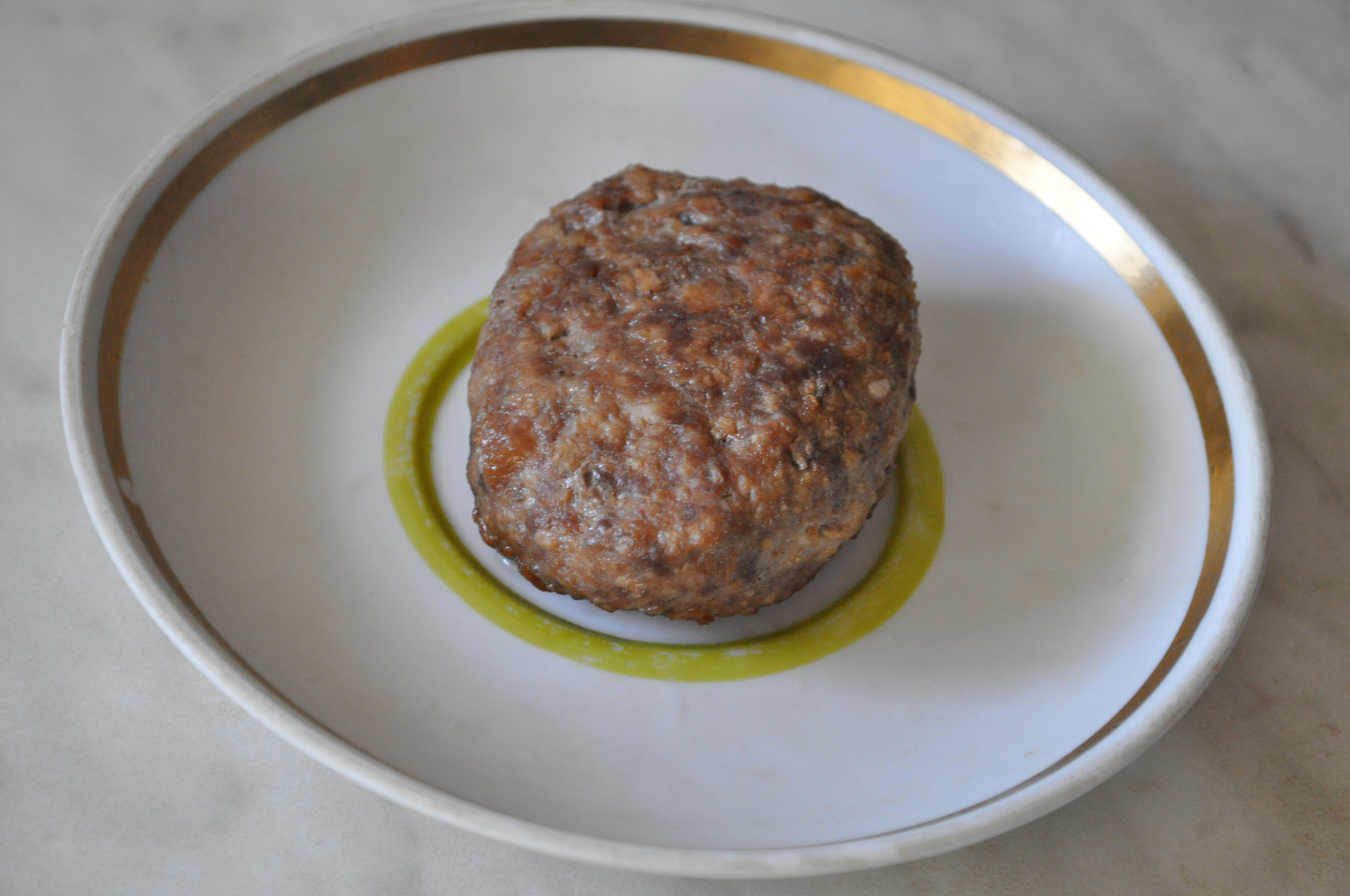 The Cutlet on the Plate.